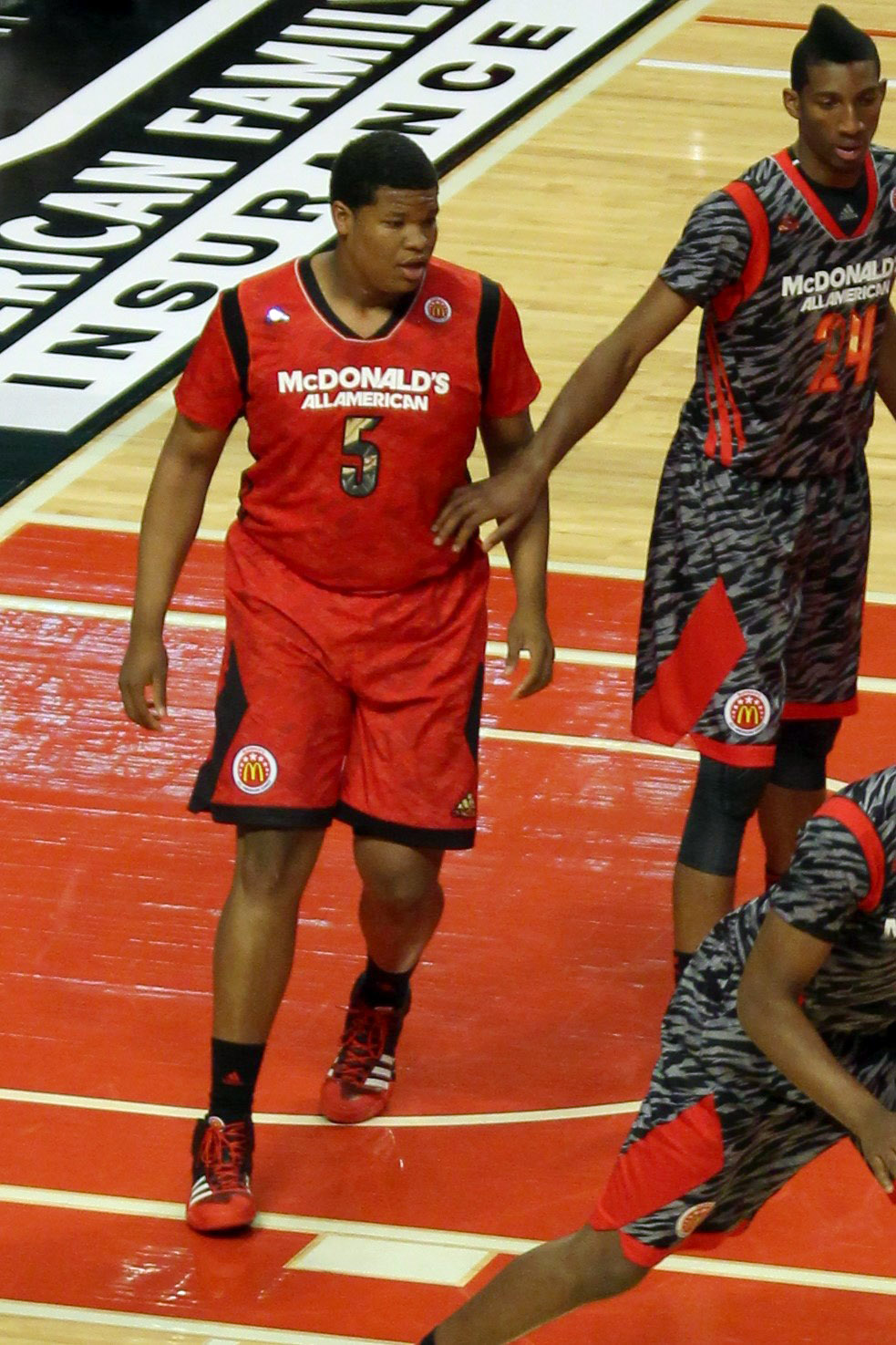 Kennedy Meeks (#5) and Marcus Lee (#24) at the w:2013 McDonald's All-American Boys Game